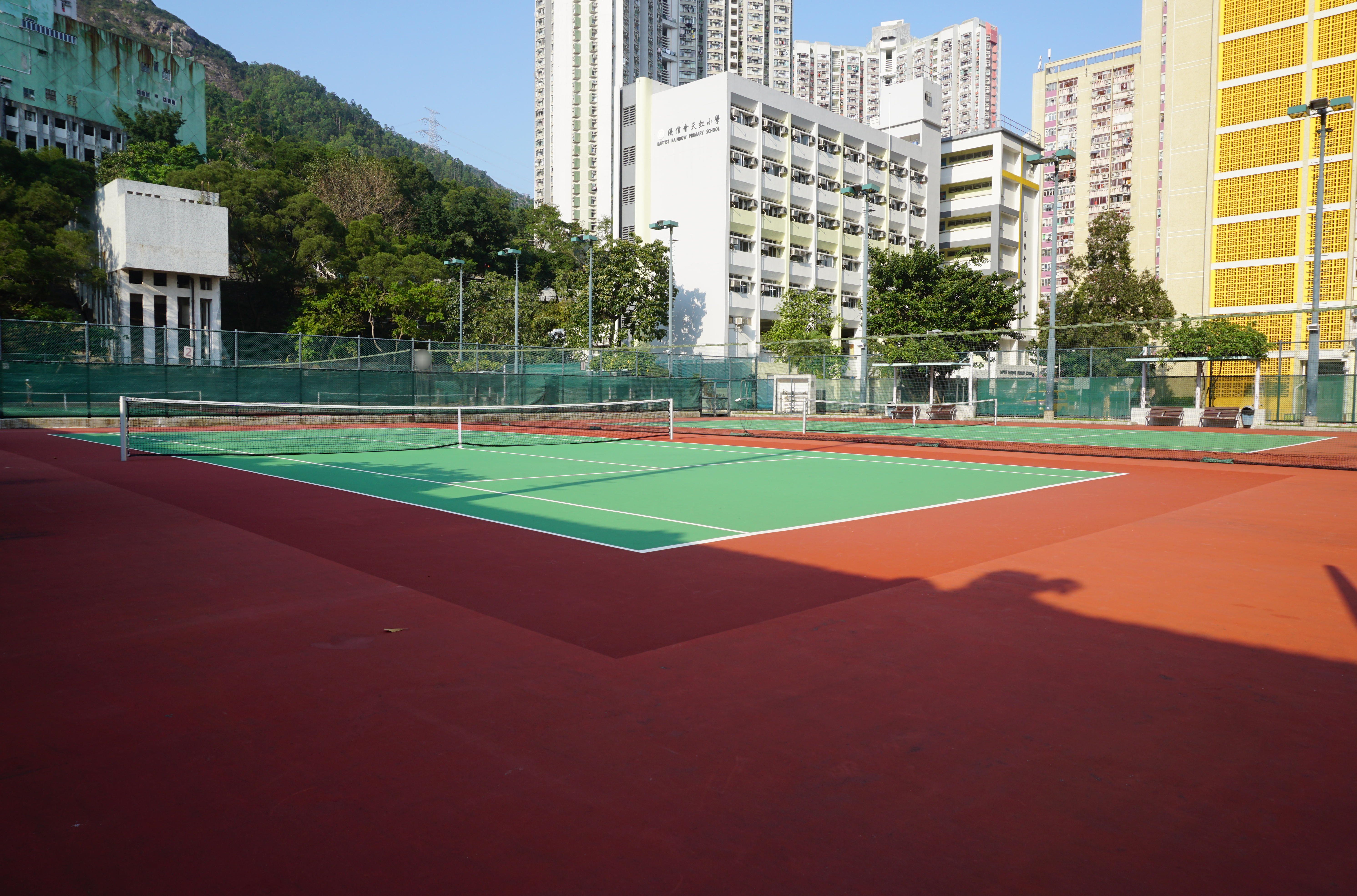 Ma Chai Hang Recreation Ground in Chuk Yuen, Hong Kong.